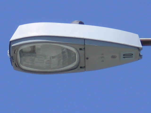 History of street lighting: General Electric M150, full cutoff version